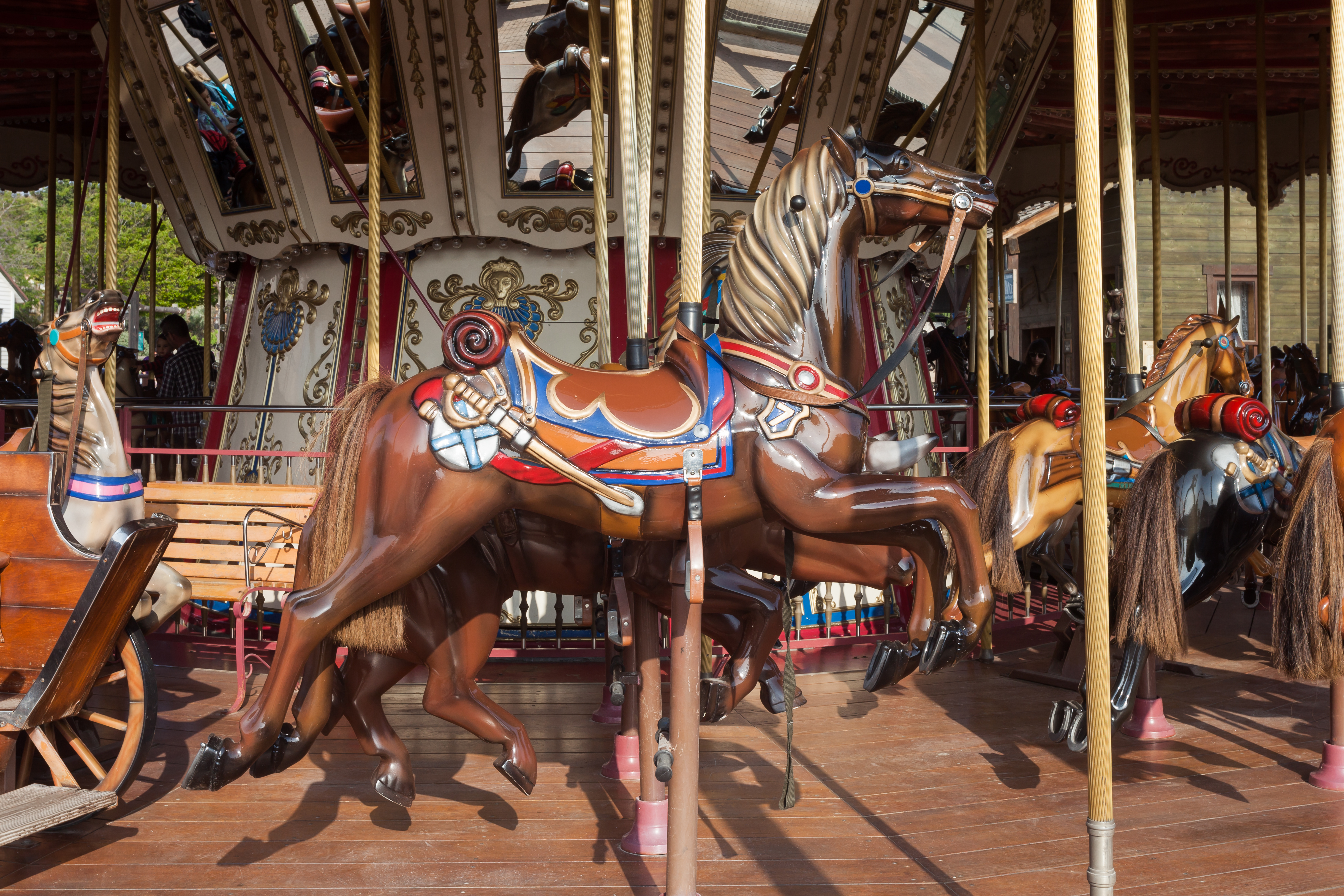 Carousel horse, Port Aventura. Catalonia.